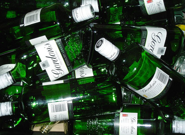 Empty green Gordon’s gin bottles in a recycling bin. (London, 2002)